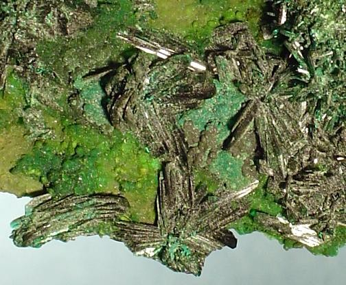 Atacamite Locality: La Farola Mine, Cerro Pintado, Las Pintadas district, Tierra Amarilla, Copiapó Province, Atacama Region, Chile (Locality at ) Size: 4.7 x 3.7 x 1.1 cm. A beautiful and showy plate richly covered with lustrous atacamite crystal pinwheels. The dark green radiating blades nicely compliment the lighter green needles and the minor bit of bruising is certainly not detracting to this very showy piece from the Type Locality region - the La Farola Mine in the Atacama Region.